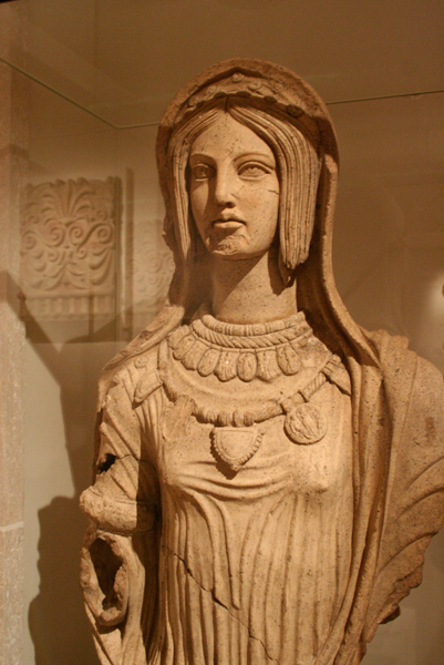 Metropolitan Museum of Art # 16.141